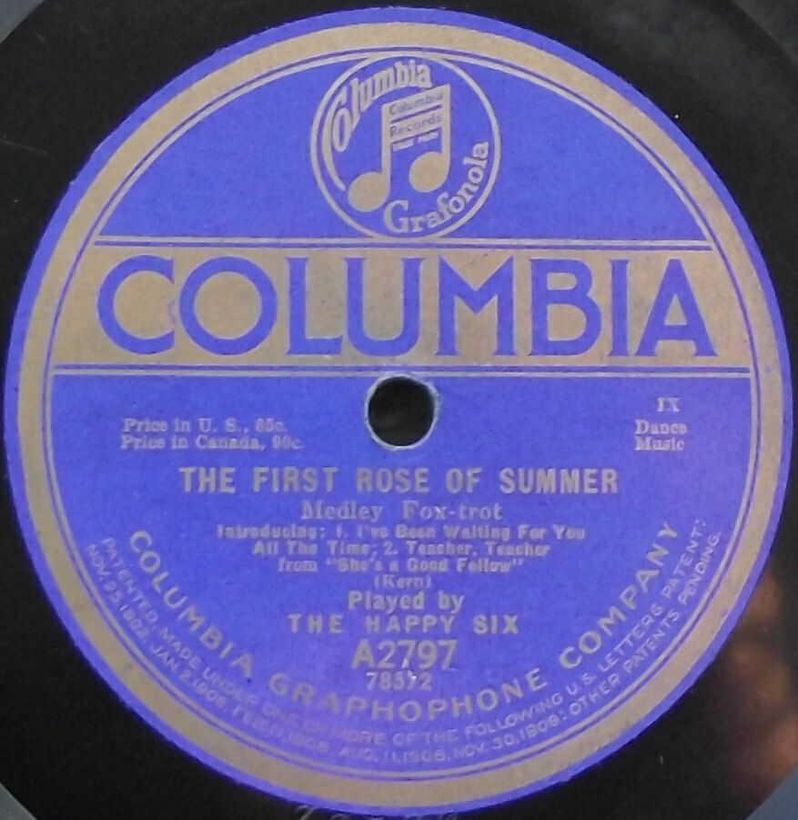 Picture of 78rpm record label by The Happy Six, Columbia Records. Photograph of record from author's collection.